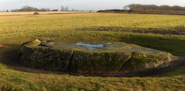 stone jutland